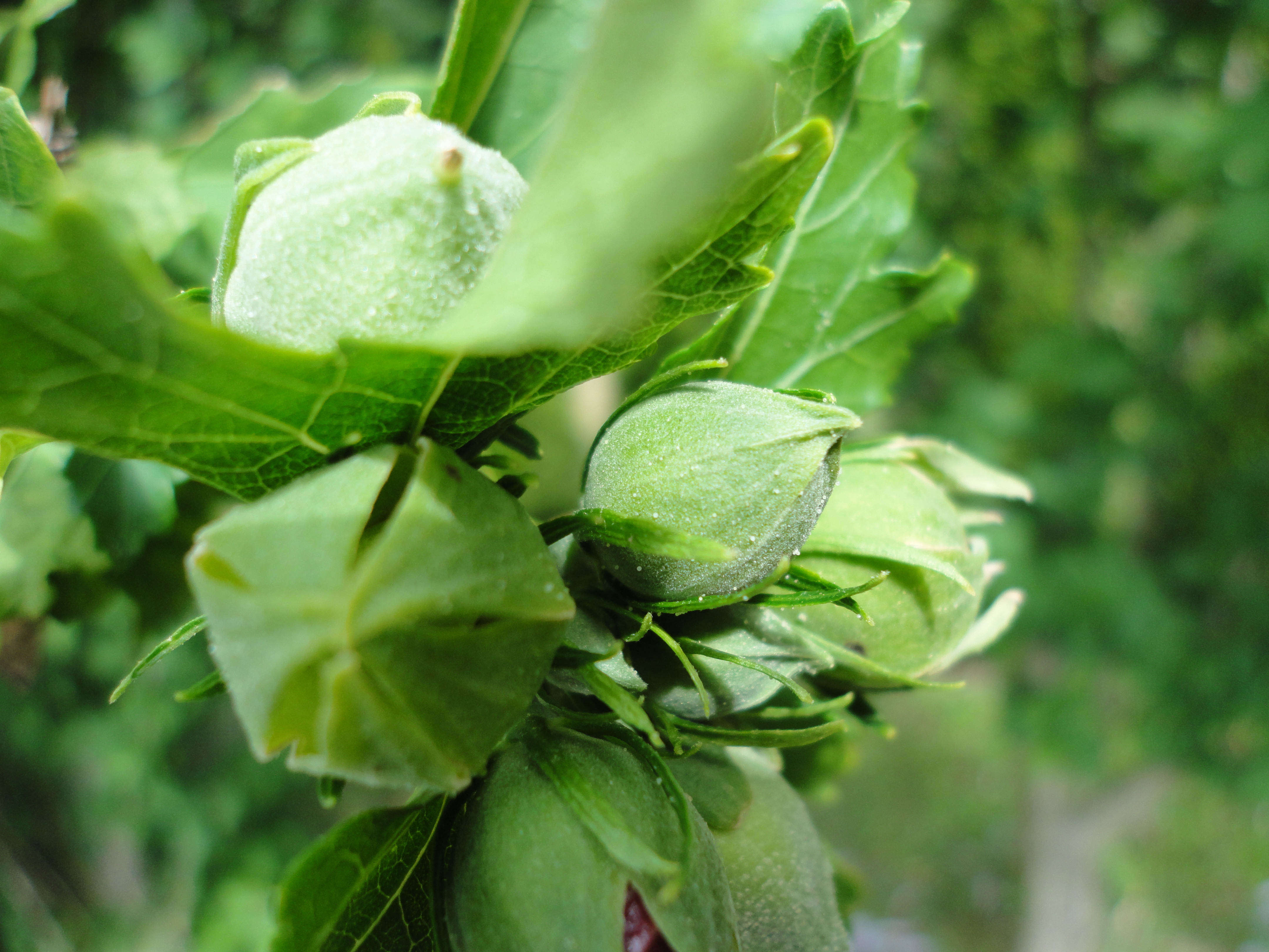 Hibiscus syriacus (Rose of Sharon) flower bud that has not flowered yet.